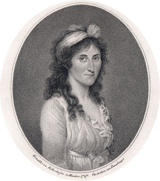 Sarah Thompson, Countess Rumford, 1774-1852; (Picture c. 1794)